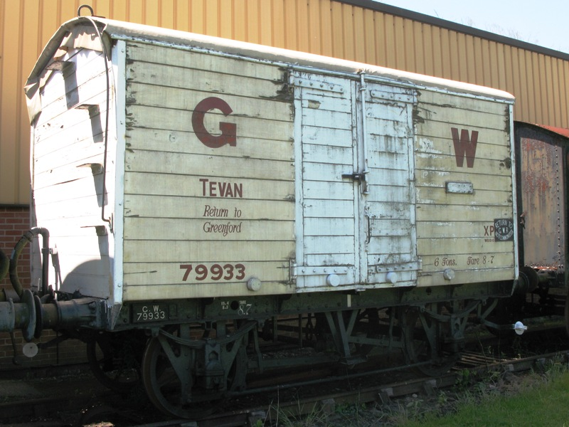 Great Western Railway diagram X7 van 77933 at Didcot Railway Centre, England. This is the type of wagon that was built as a refrigerated 'Mica' van but is preserved as a 'Tevan' used for non-refrigerated perishable traffic such as dried tea and is marked to be returned to Greenford station in London.